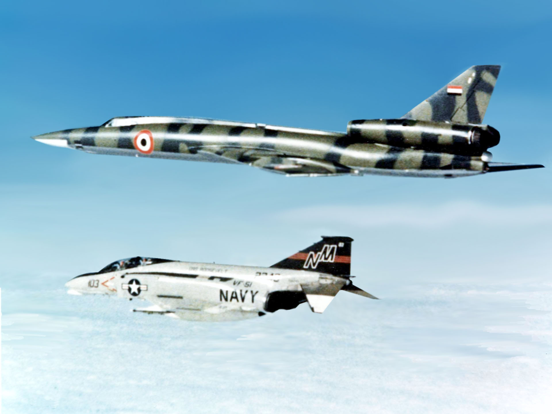 A U.S. Navy McDonnell F-4N Phantom II from Fighter Squadron VF-51 Screaming Eagles intercepts a Soviet-built Libyan Tupolev Tu-22 "Blinder" over the Mediterranean Sea, circa in April 1977. The Tu-22 bomber was being delivered to Libya. VF-51 was assigned to Carrier Air Wing 19 aboard the aircraft carrier USS Franklin D. Roosevelt (CV-42) for a deployment to the Mediterranean Sea from 4 October 1976 to 21 April 1977.